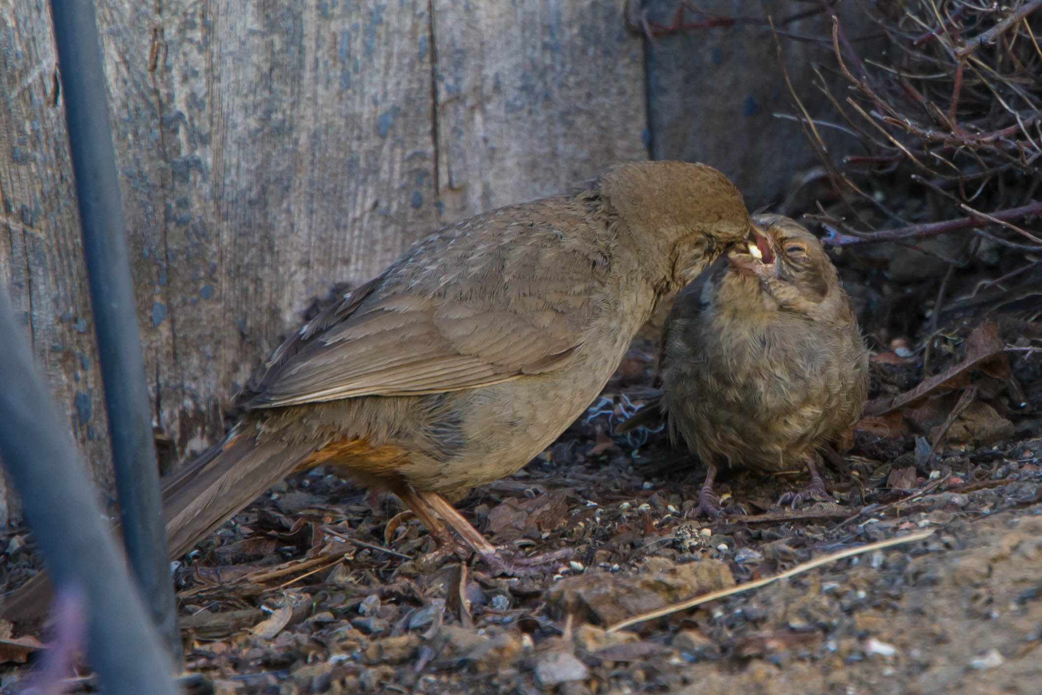 Adult California Towhee Feeding Fledgling